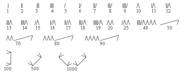 Old Moksha numbering system.